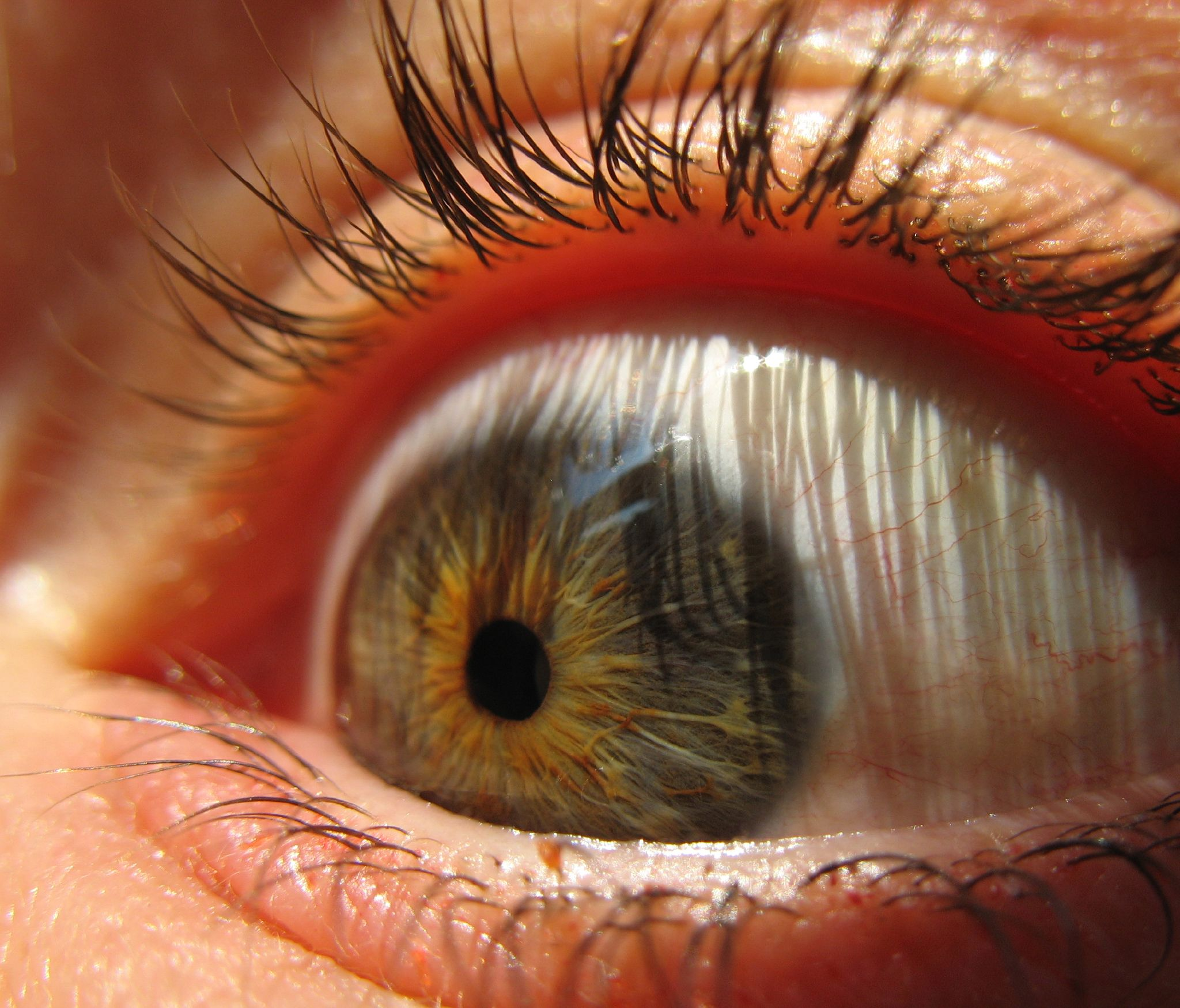 Eyeball